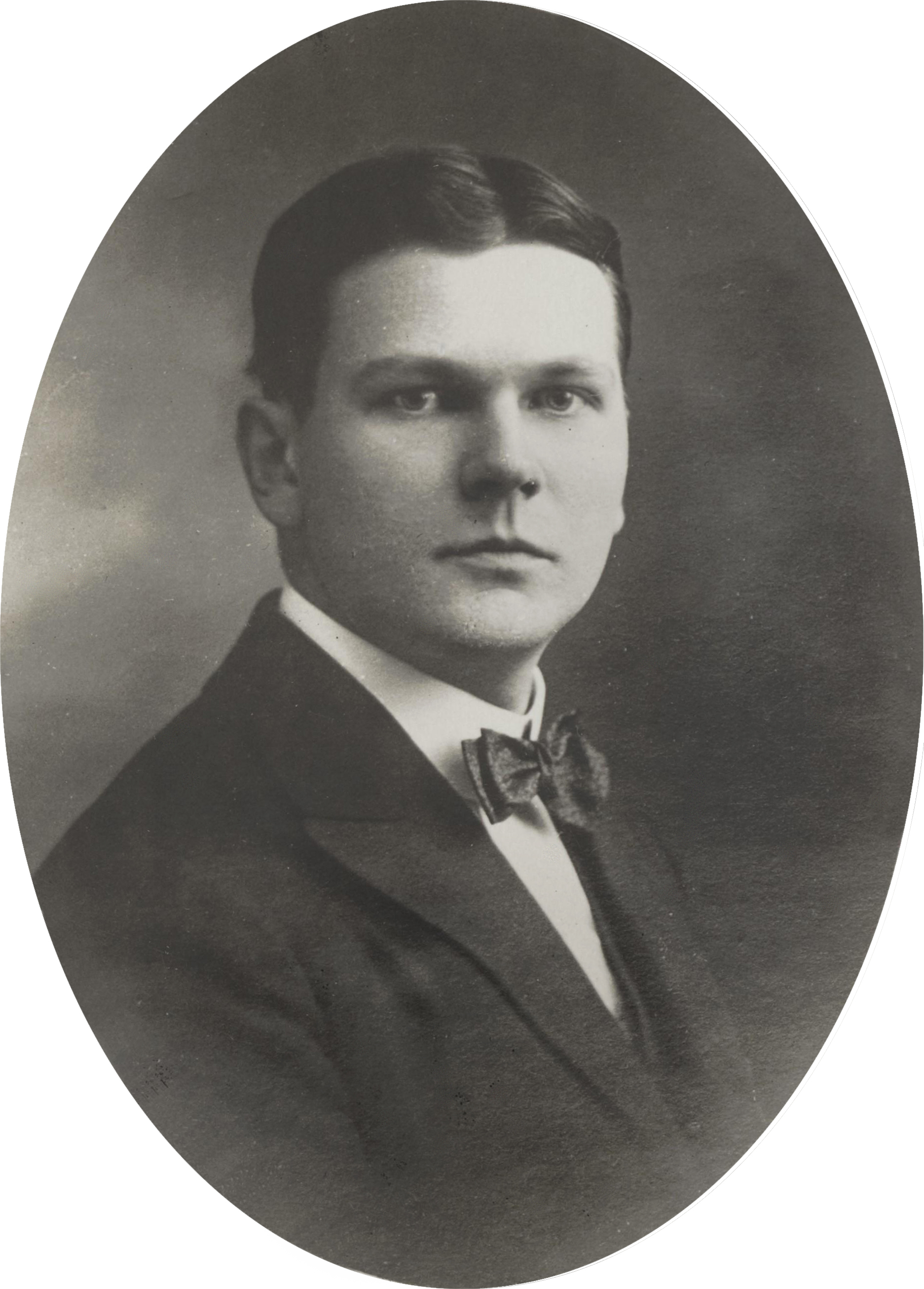 Dirk Hannema (1896-1984), art historian and museum director (Museum Boijmans Rotterdam, the Netherlands)